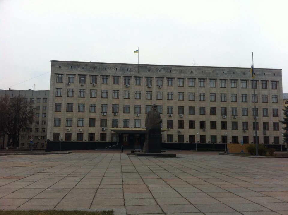 Zhytomyr Regional State Administration building